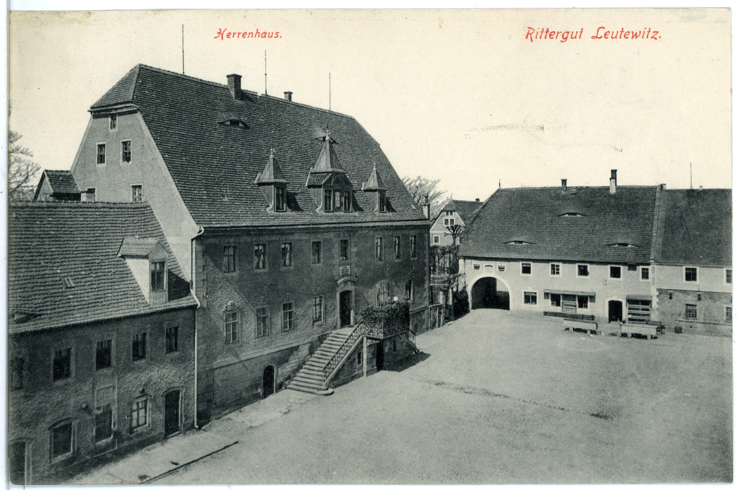 This postcard is from publisher Brück & Sohn in Meißen ( This postcard has a unique number 20033 and is available in a higher resolution at the publisher. This images was uploaded in a cooperation project between Wikipedians and the publisher.